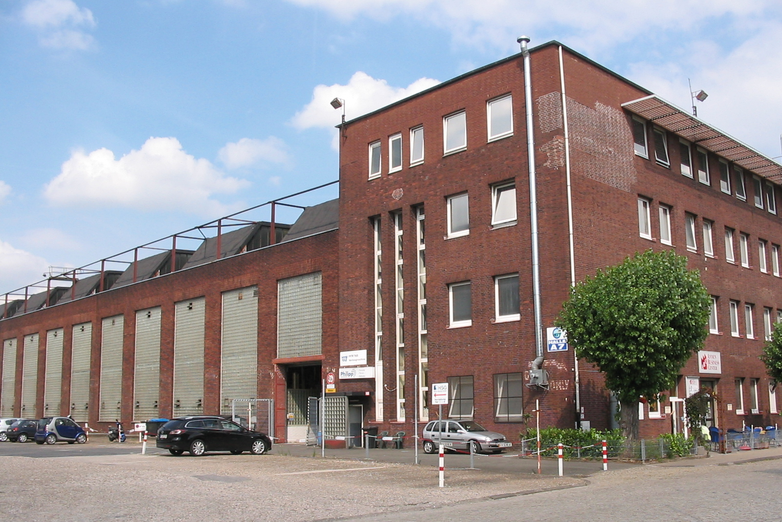 Hall A7 at Wittener Industrie- und Technologie-Park